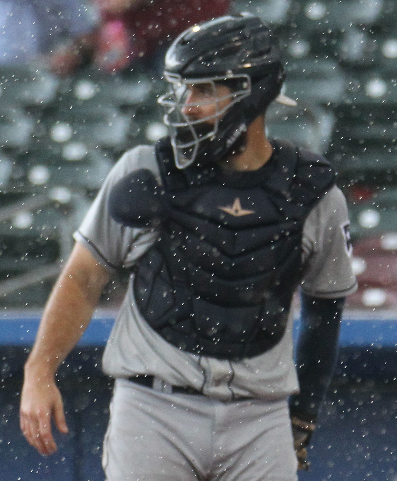 The San Antonio Missions and Omaha Storm Chasers play a baseball game in the rain at Werner Park in Nebraska in 2019